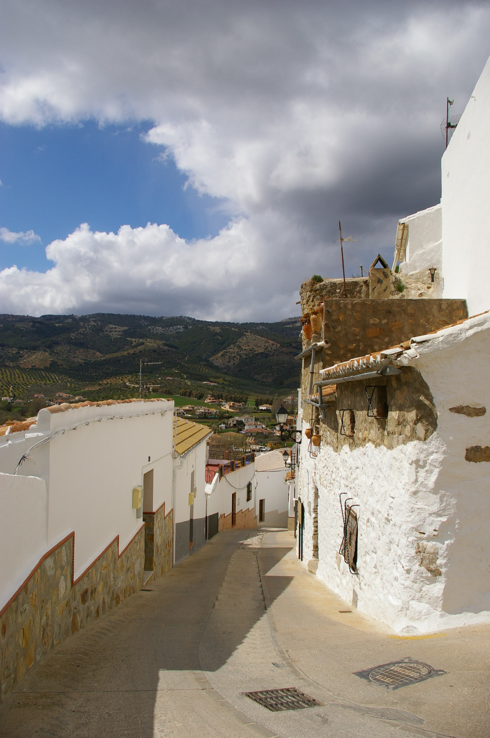 El Burgo (Malaga), Calle de la Calzada